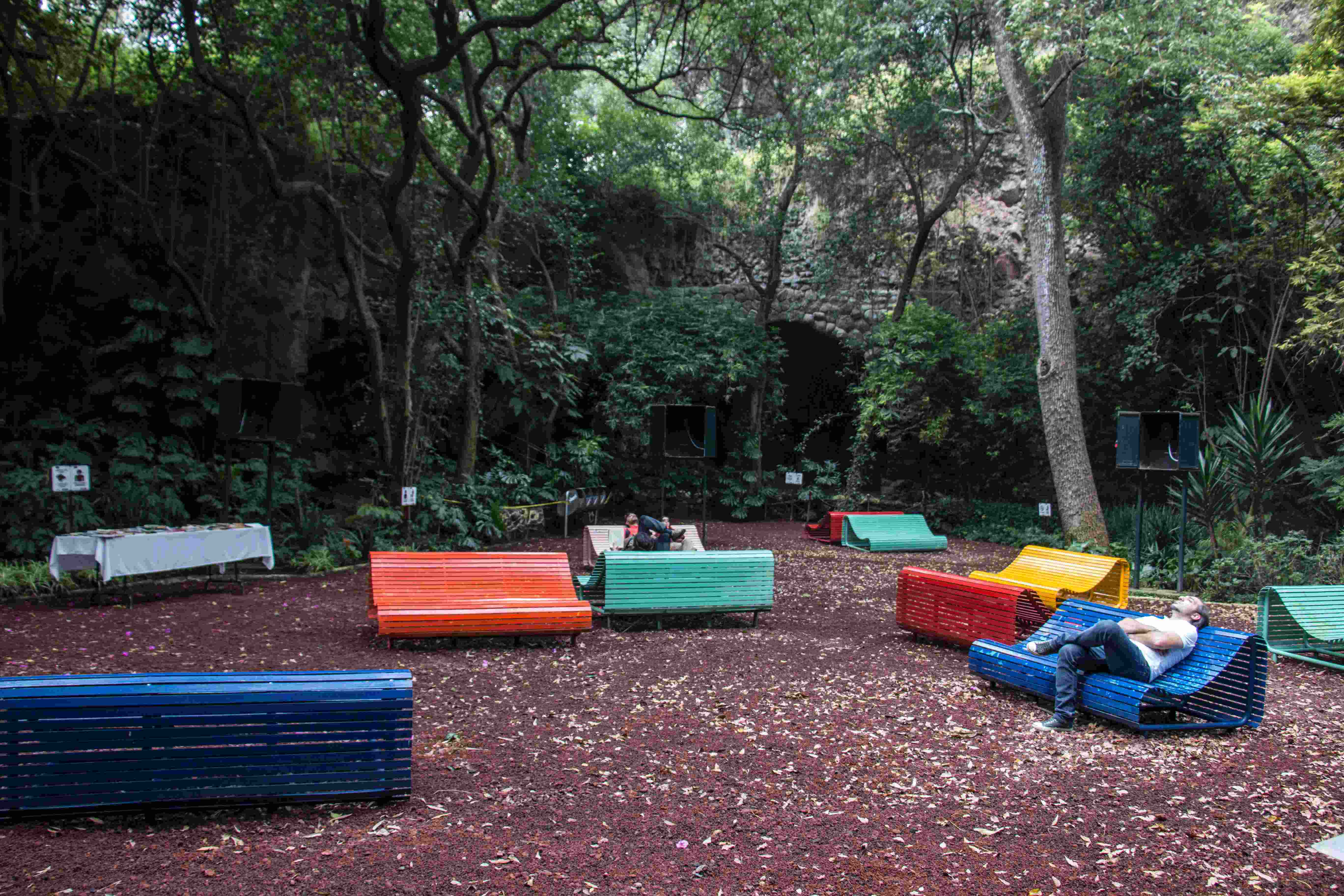 People hearing music at the benches of Chapultepec's Audiorama, First Section of Chapultepec Park, Mexico City, Mexico